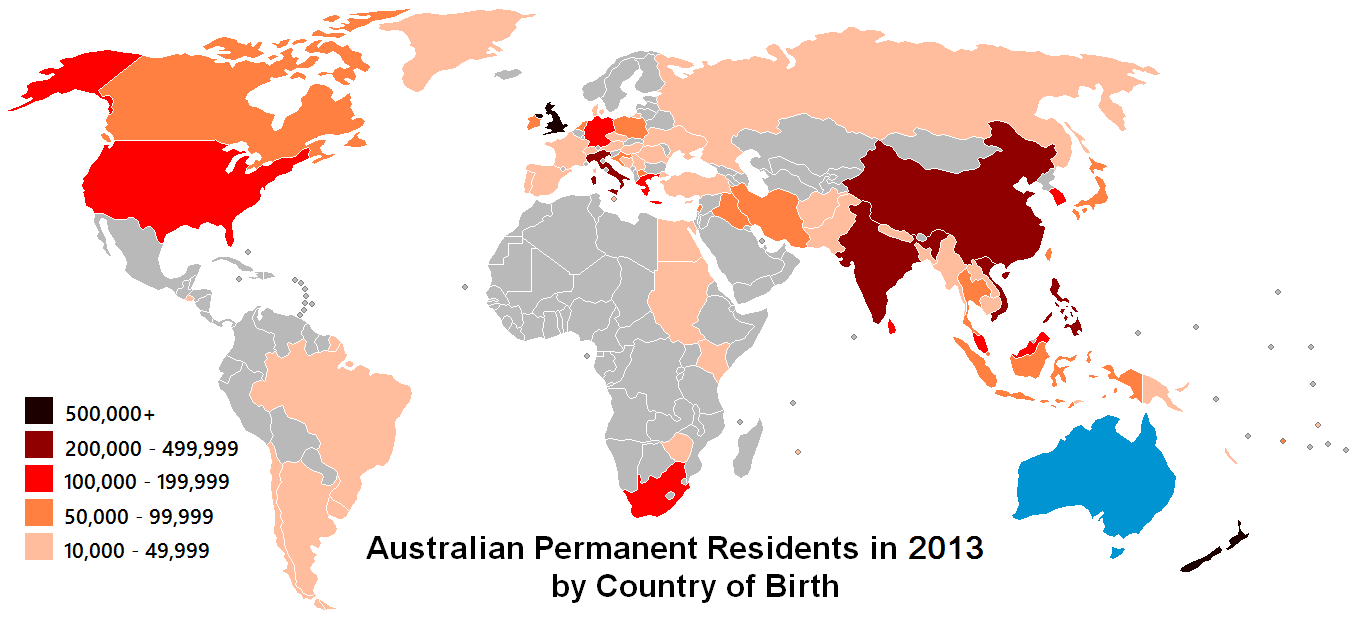 Country of birth of Australian estimated resident population, 2013.